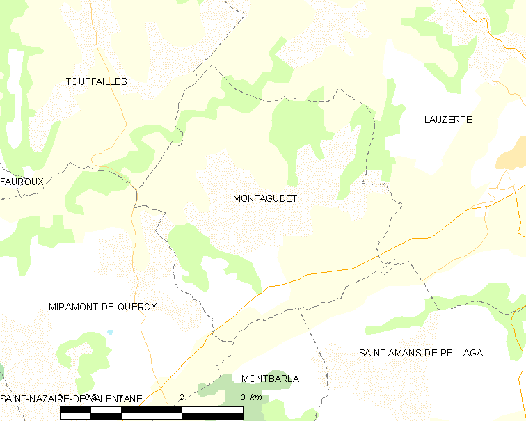 Map of French municipality Montagudet